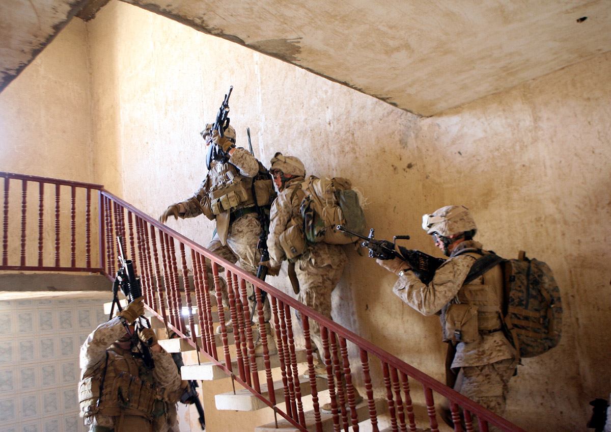 BARWANA, Iraq - Marines assigned to the Hawaii-based L Company, 3rd Battalion, 3rd Marine Regiment, search a house for insurgents, weapons caches and explosives during a patrol June 16. Photo ID: 200662214650 Submitting Unit: 1st Marine Division Photo Date:16/06/2006